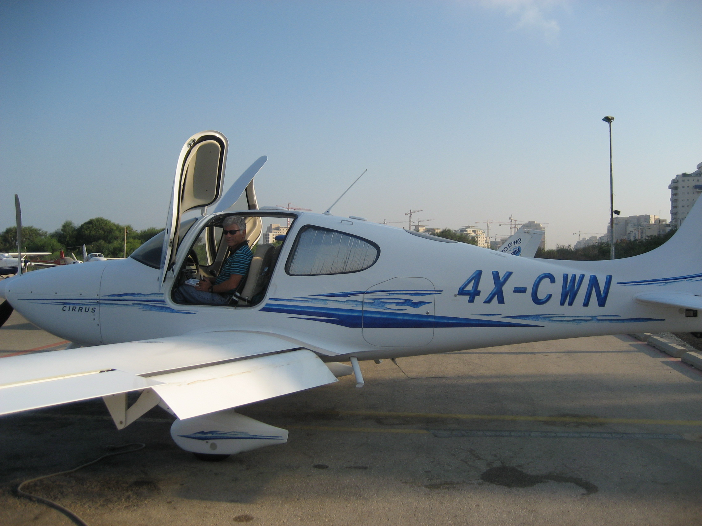 4X-CWN at Sde Dov. Crashed on April 29th 2009 in Greece. Pilot, Nahum Sharfman, and his wife lost in crash.